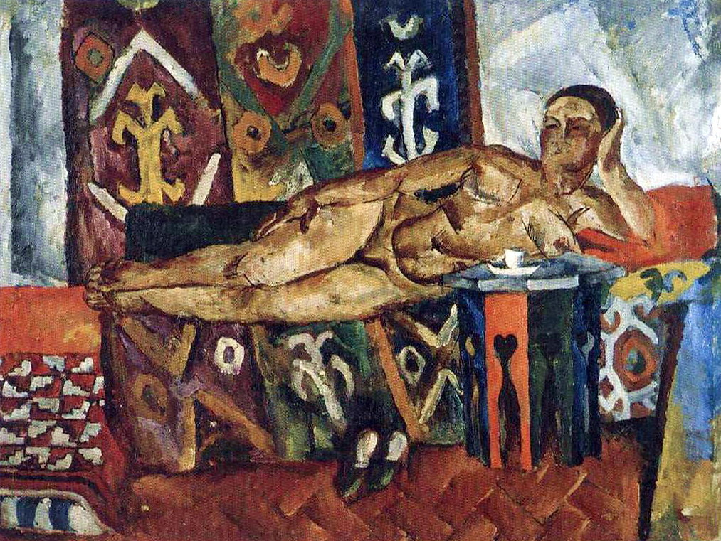 Sheherazade